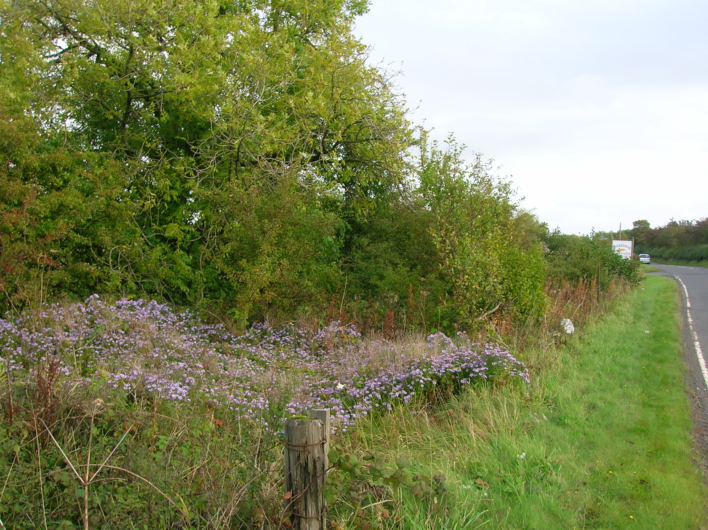 The site of the old Toll House on the turnpike from Kilwinning, Ayrshire, Scotland.